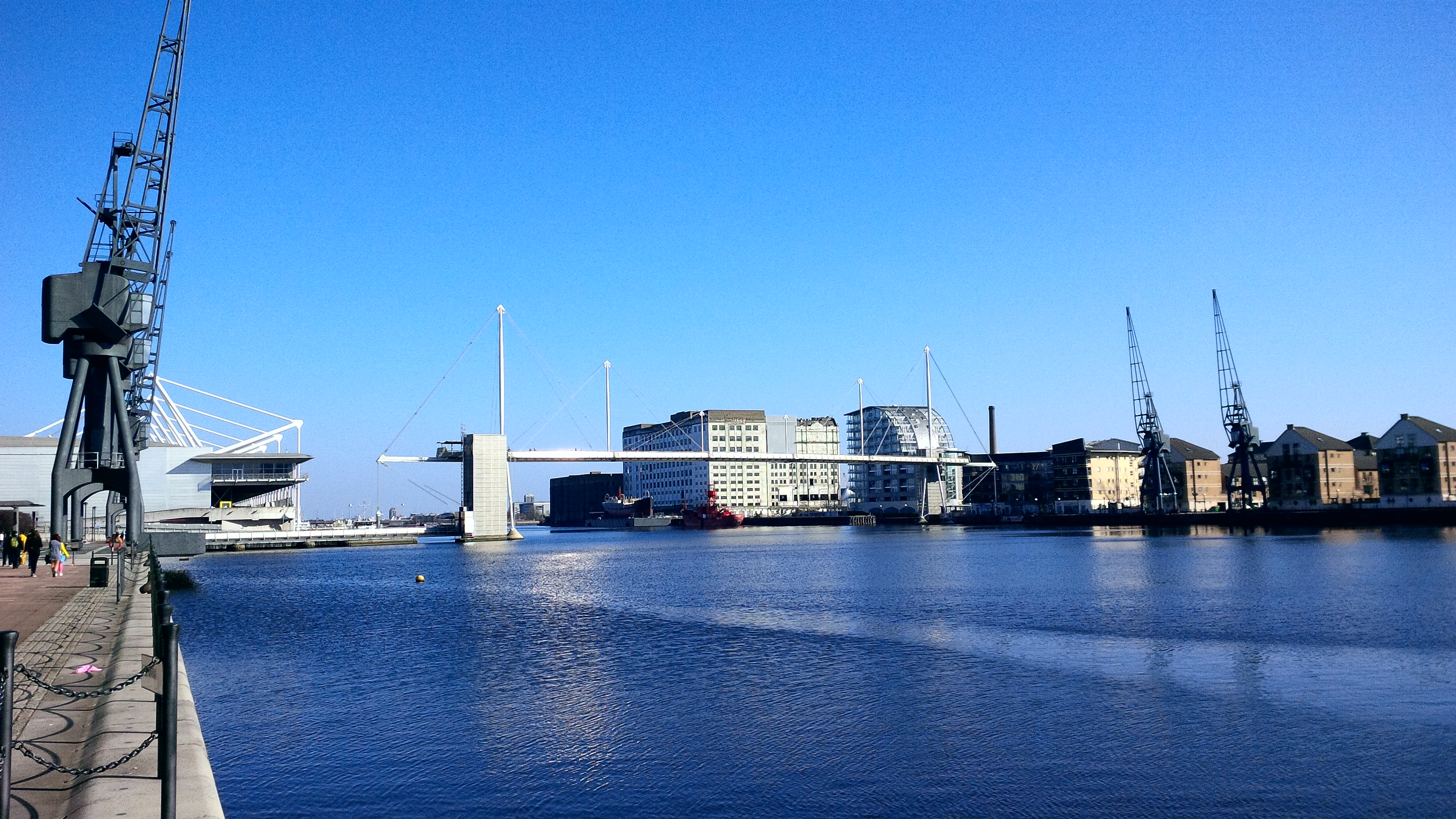 Royal Victoria Dock in London, 2014